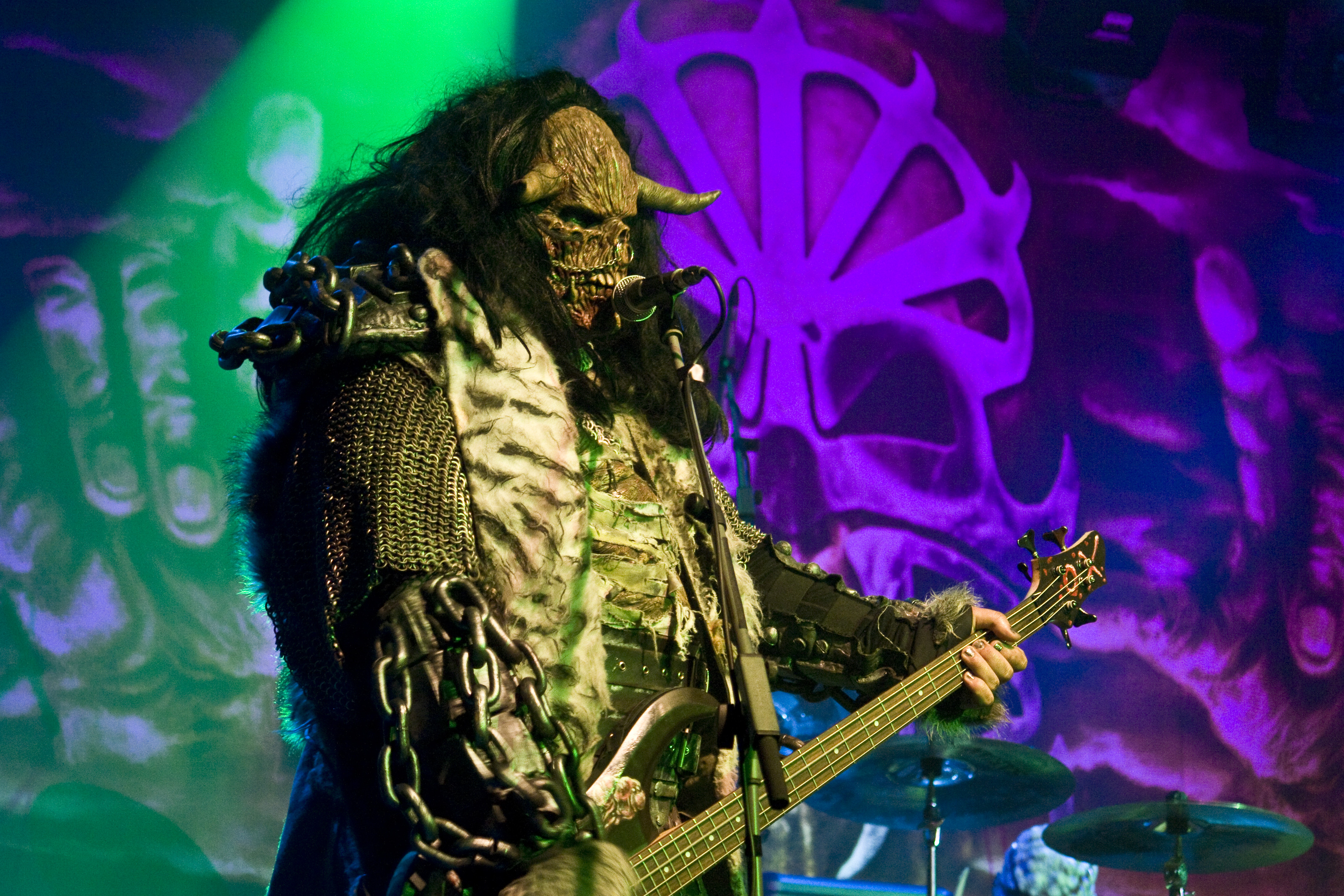 Lordi in concert in Salamandra, Barcelona, Spain.